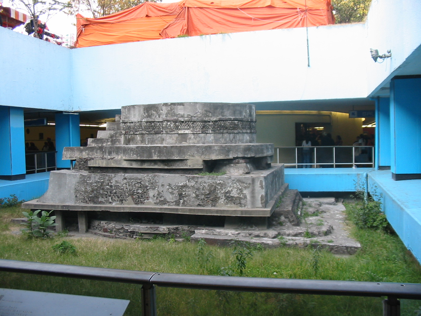 Altar of the god Ehécatl located in the middle of Metro Pino Suarez in Mexico City. This altar was uncovered during the construction of the station and remains in the middle of it.